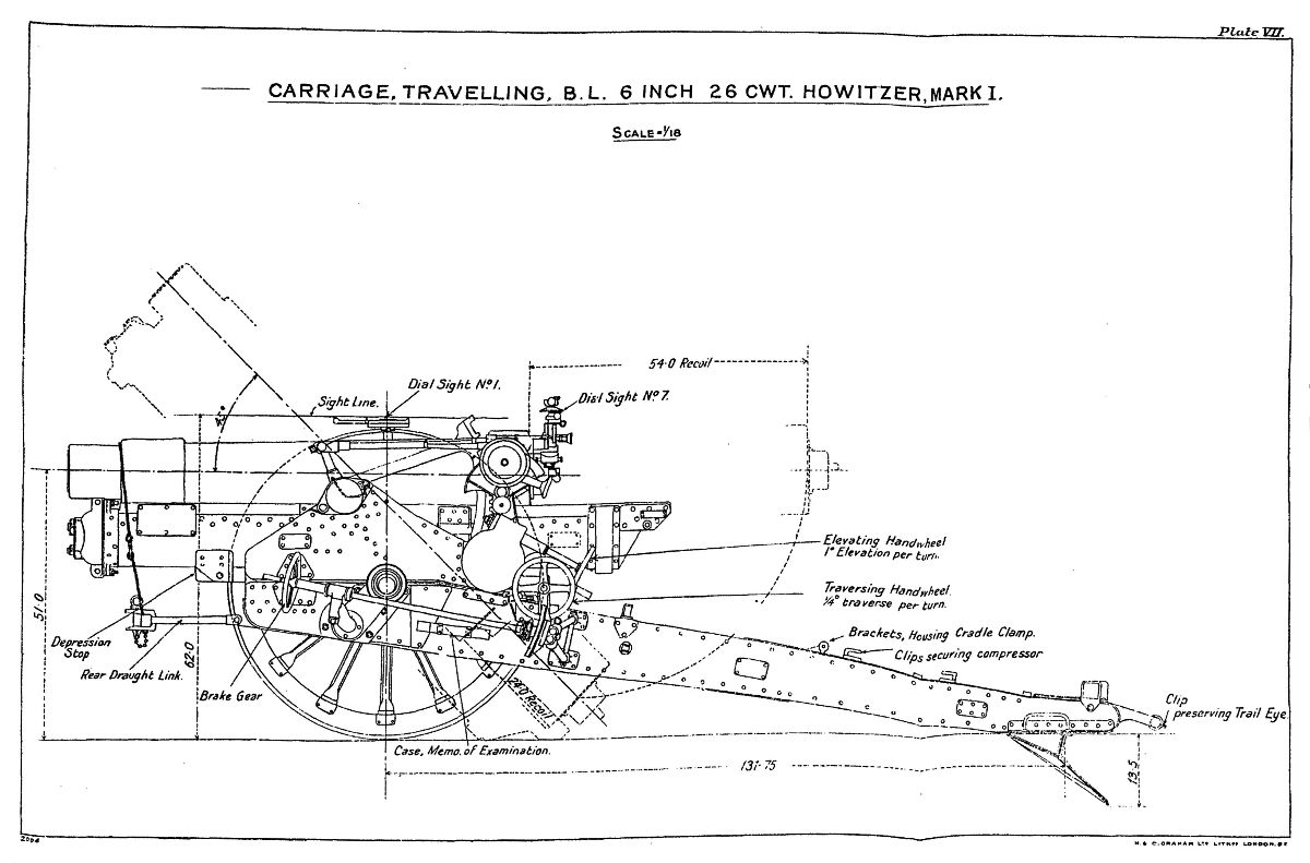 Diagram depicting left elevation of British BL 6-inch 26 cwt howitzer on Mark I travelling carriage.